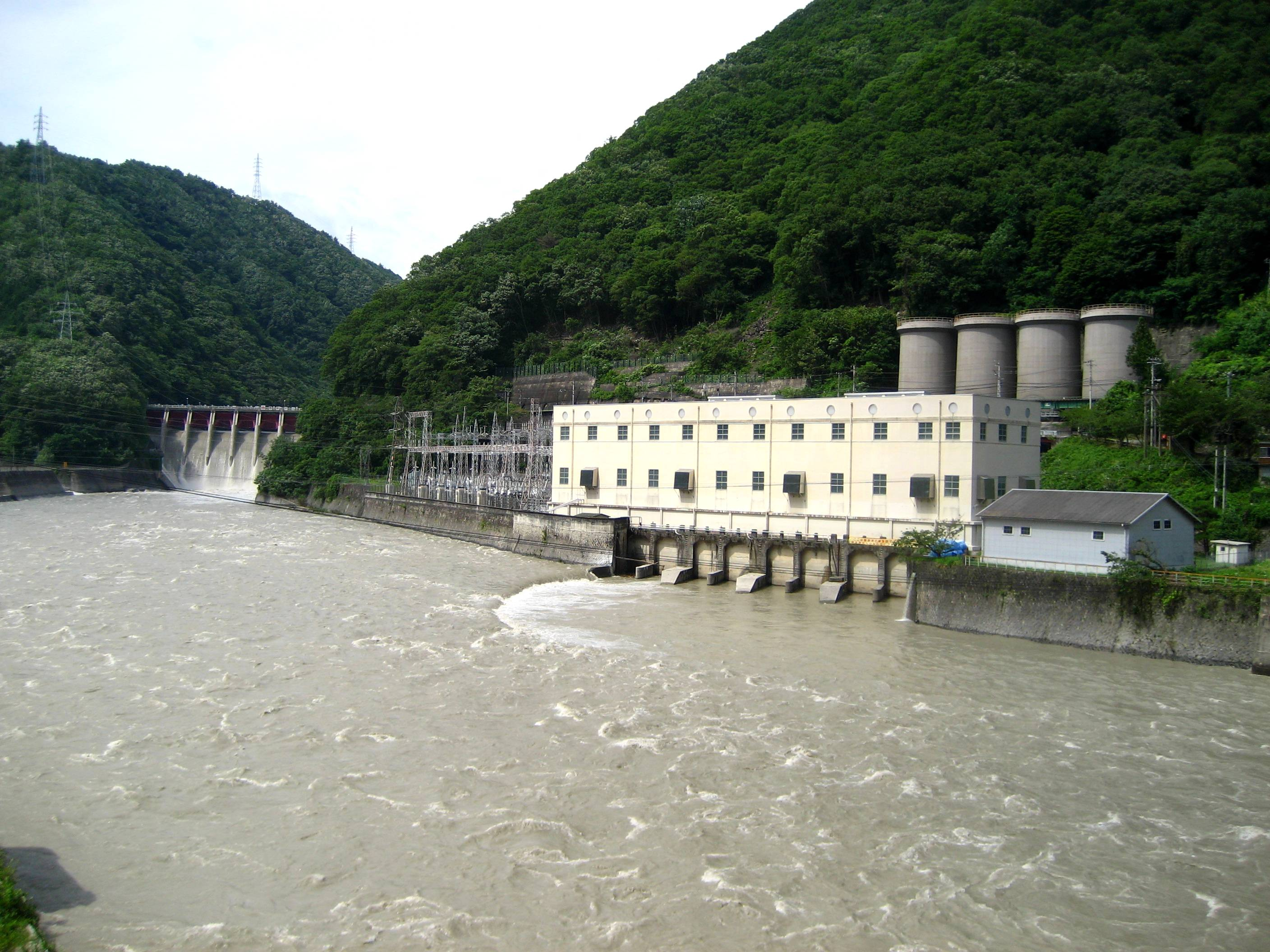 Yasuoka Dam (泰阜ダム) in Yasuoka village, Nagano prefecture, Japan.